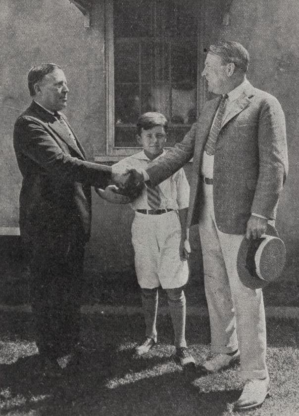 American soccer pioneer Thomas W. Cahill and film director King Baggot and his son King Baggot, Jr., on page 23 of the October 6, 1923 Universal Weekly. The accompanying article states that Baggot played center forward on Cahill's St. Louis Shamrocks team about 26 years earlier (circa 1897). Cahill was visiting Baggot in Universal City, California, while at the West Coast for the annual convention of the California Soccer Football Association.